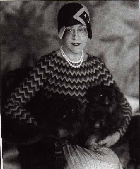 Elsie de Wolfe (also known as Lady Mendl) (December 20, 1865? – July 12, 1950) was a pioneering professional interior decorator in the United States